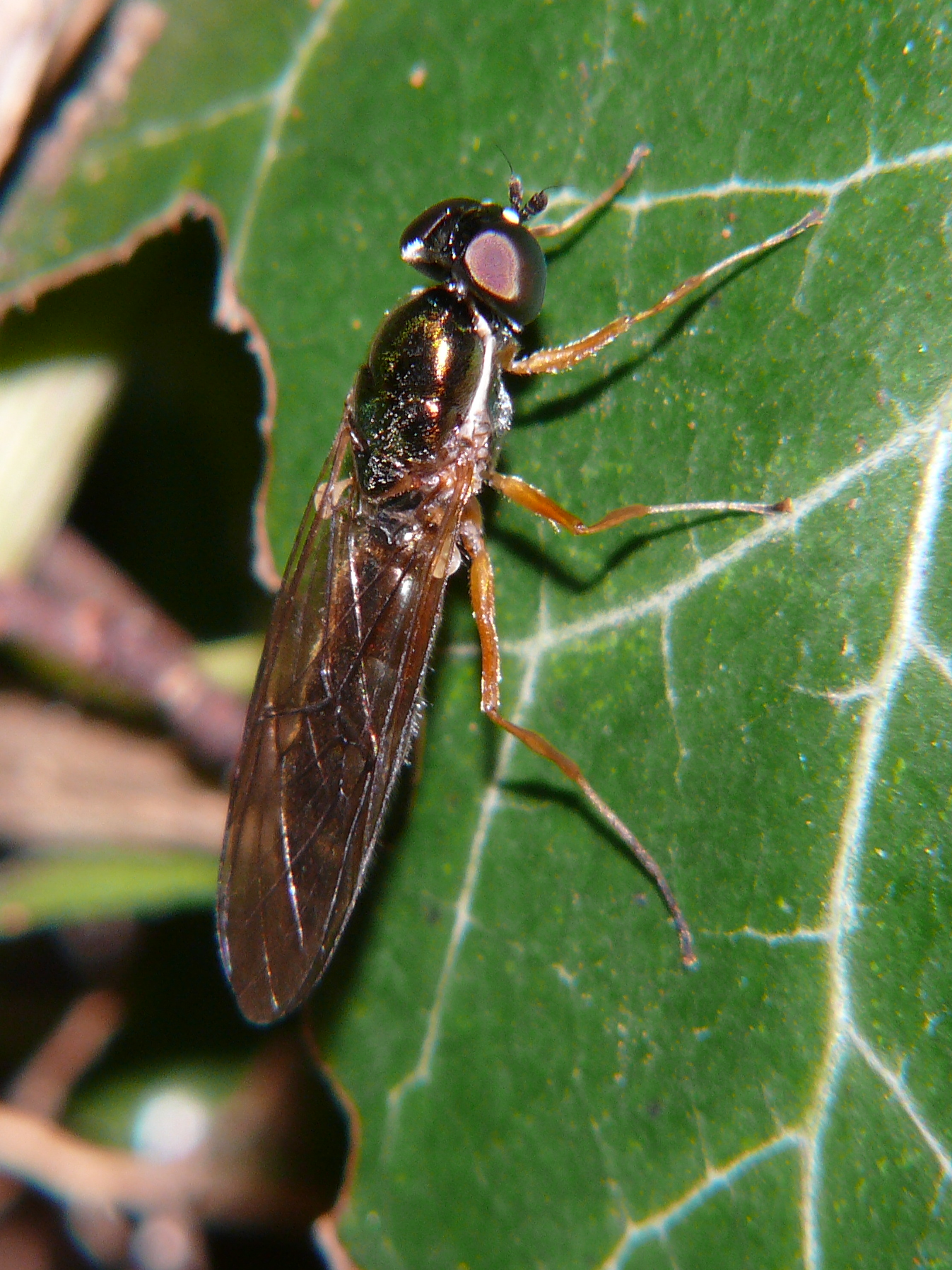 own picture, wilderness, Sargus spec.